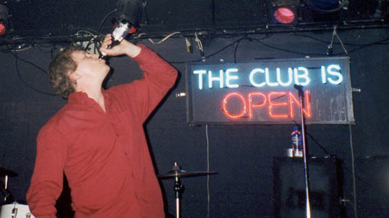 Bobpollard